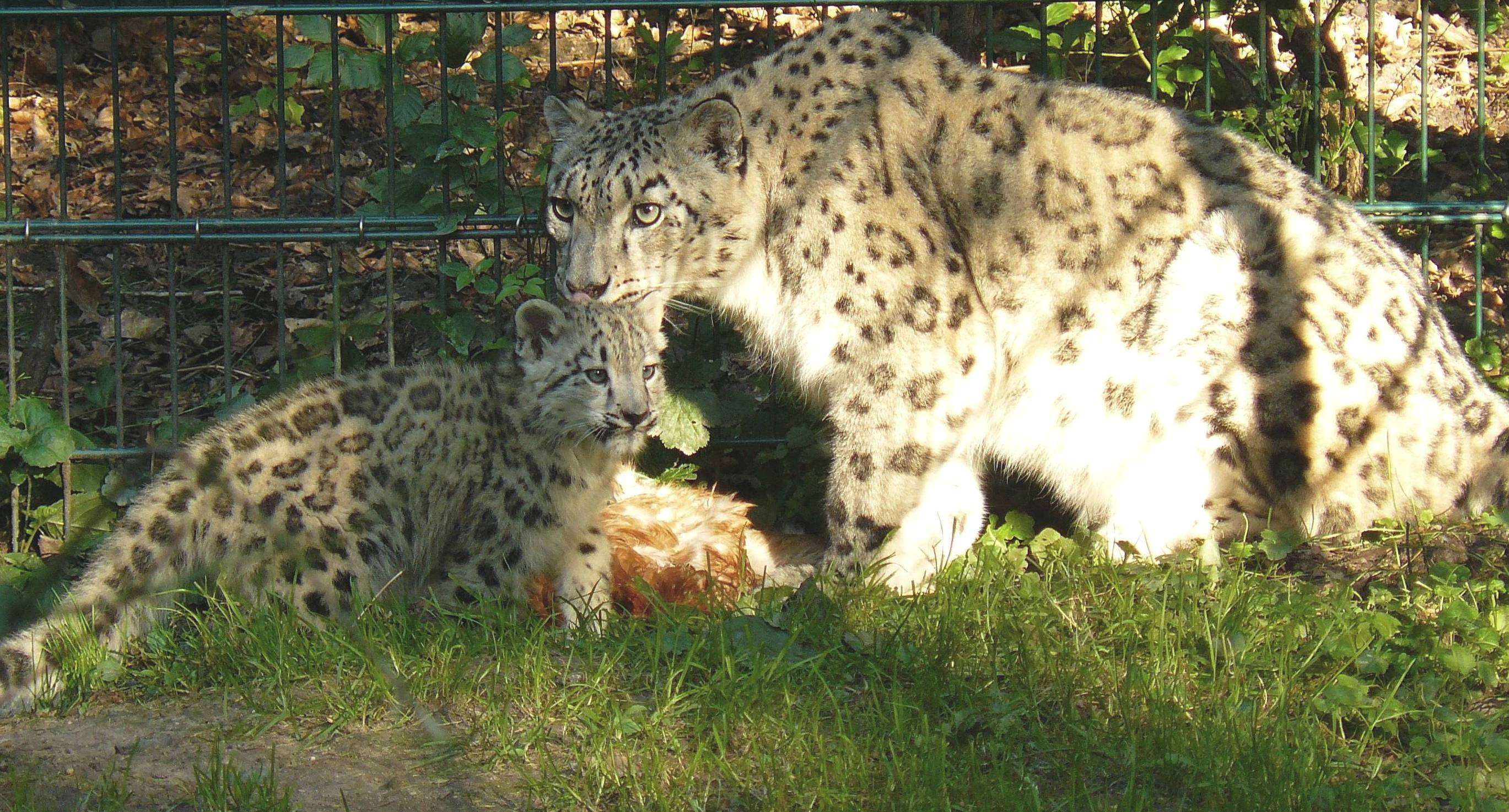 Snow leopards (Panthera uncia), Tiergarten Nürnberg, Germany